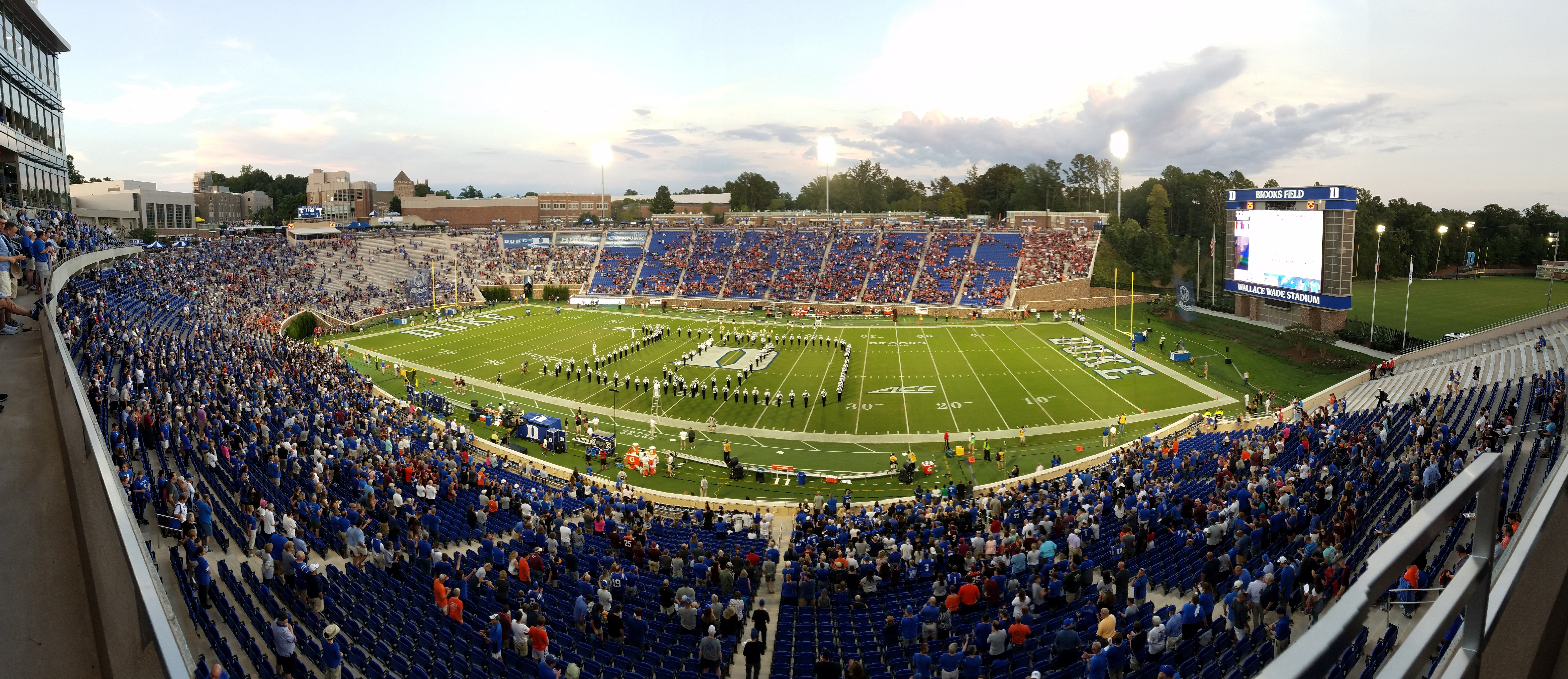 Panoramic view of Wallace Wade Stadium taken from the west side prior to Duke's 2018 game against Virginia Tech.